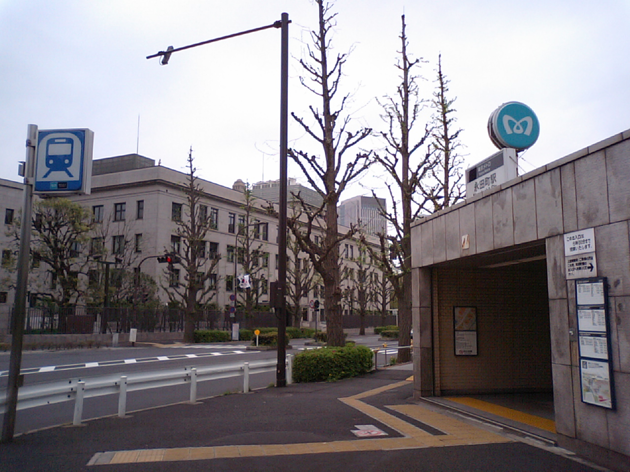 "National Diet Building" entrance of Nagatachō Station in Tokyo